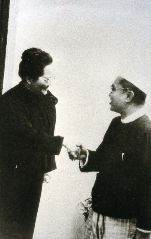 Soong Ching-ling and U Nu in Shanghai 1954年12月13日，宋庆龄在上海寓所会见缅甸吴努总理。